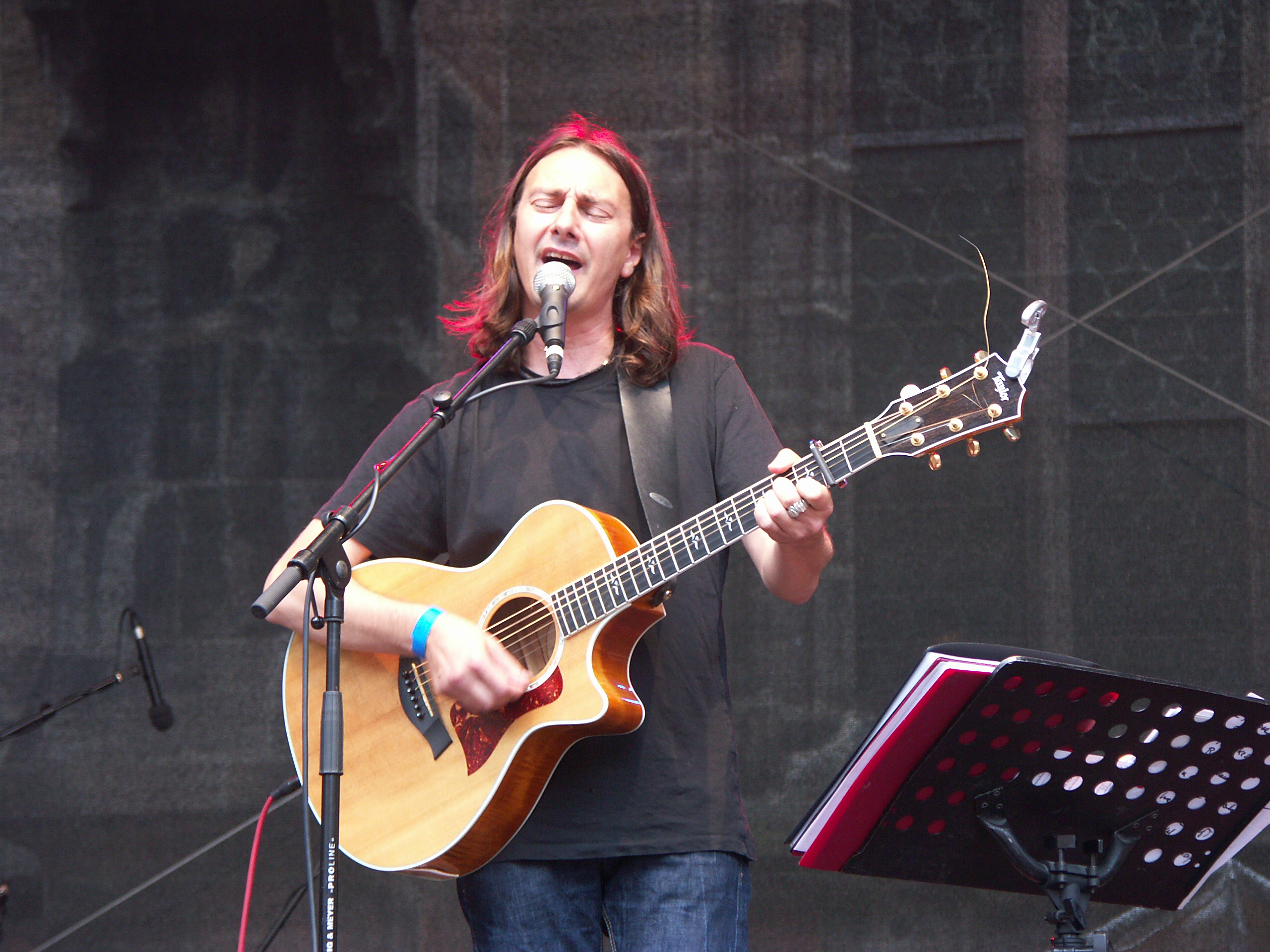 Pippo Pollina, singer/songwriter from Italy, at the free festival "Bardentreffen" 2009 in Nuremberg / Germany (appearance together with Linard Bardill)